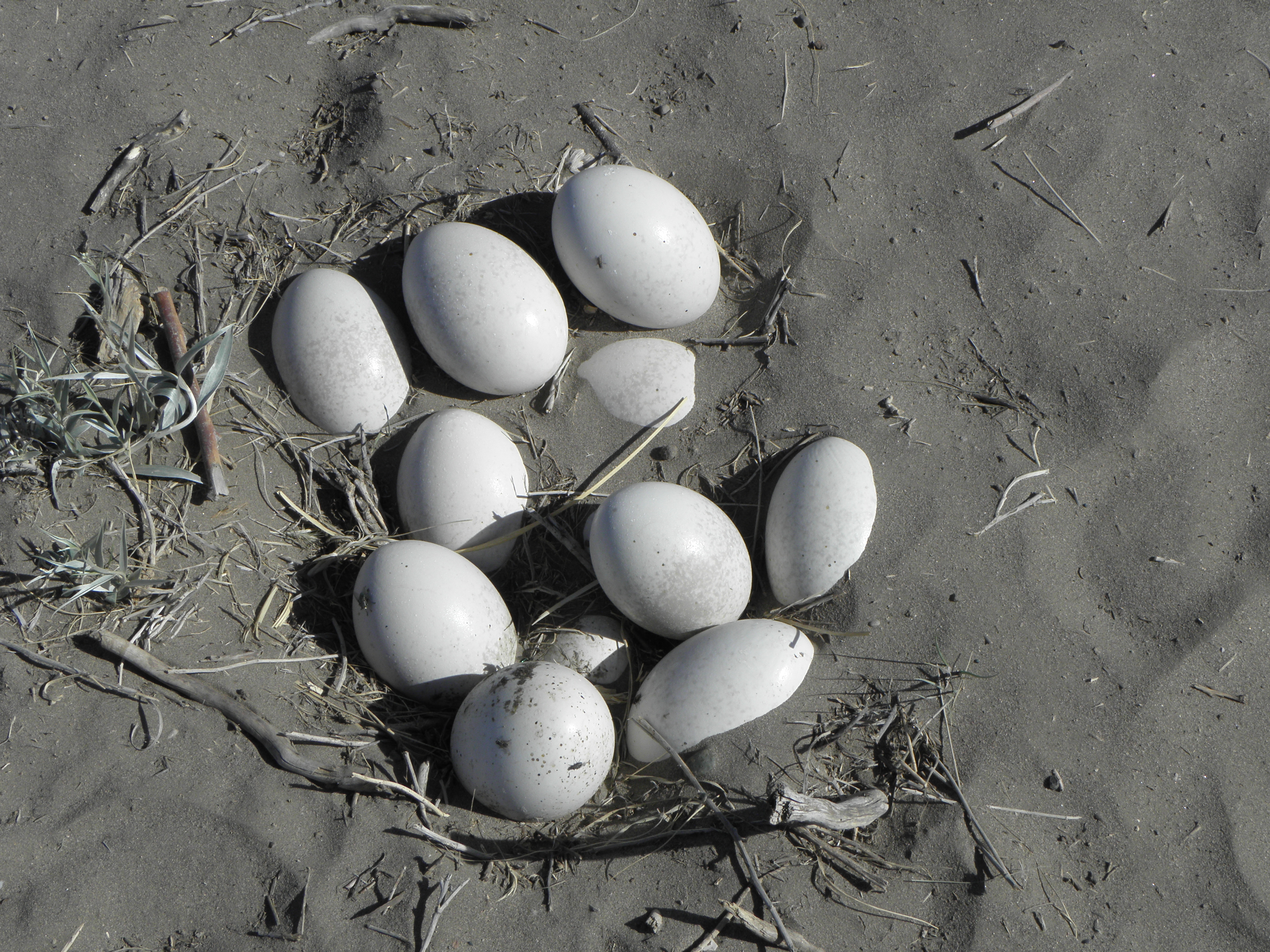 Nest of Patagonian Lesser Rhea.